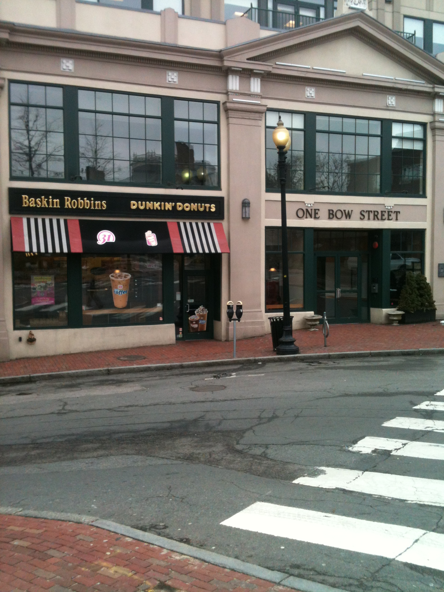 Dunkin' Donuts/Baskin Robbins, Cambridge, MA